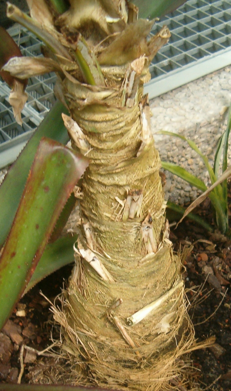 At Botanical Gardens Berlin-Dahlem Species Coccothrinax alata